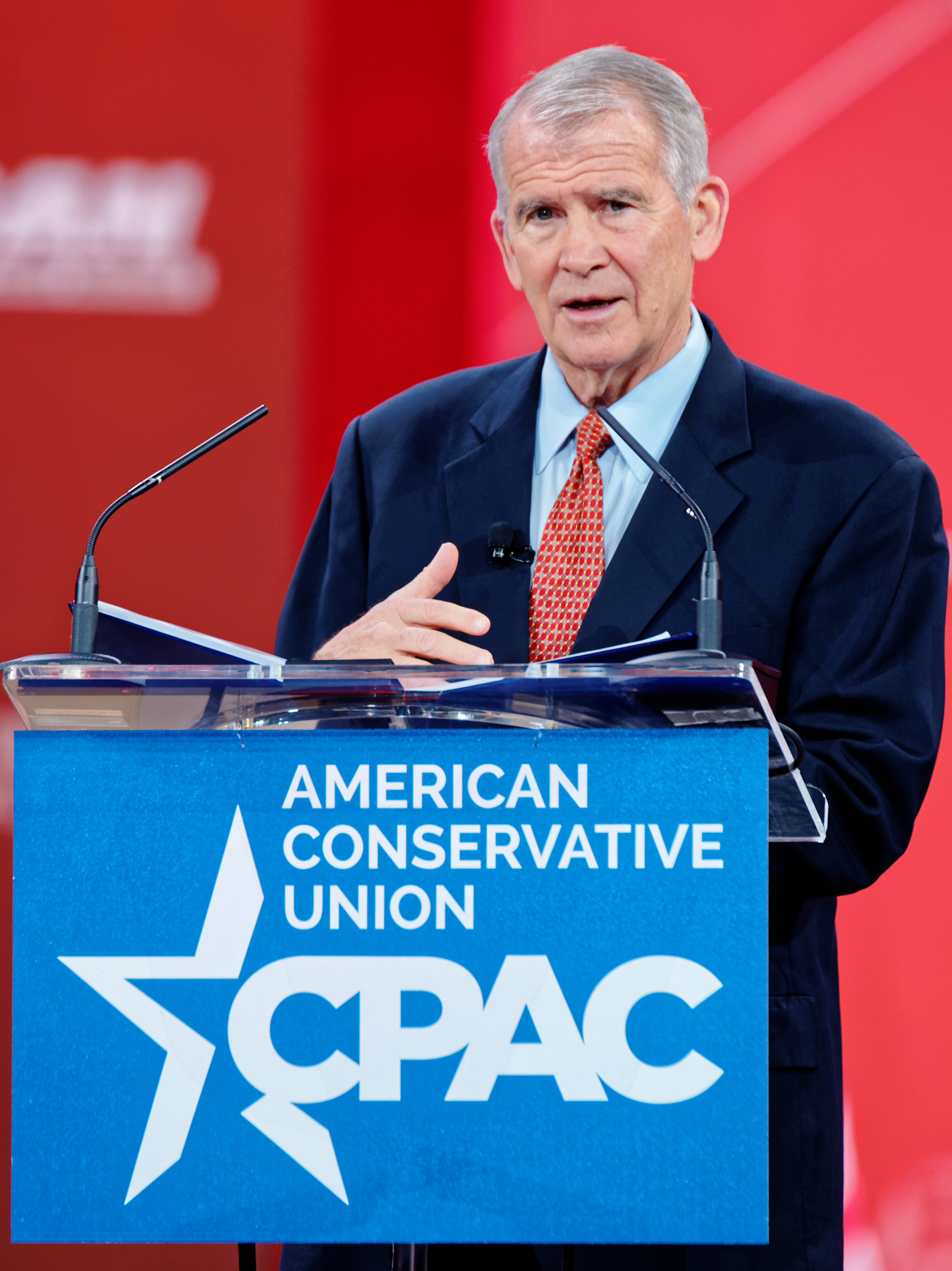 Oliver Laurence “Ollie” North (born October 7, 1943) is a political commentator and television host, military historian, New York Times best-selling author, and a former United States Marine Corps lieutenant colonel. North is primarily remembered for his term as a National Security Council staff member during the Iran–Contra affair, a political scandal of the late 1980s. The scandal involved the clandestine sale of weapons to Iran, supposedly to encourage the release of U.S. hostages then held in Lebanon. North formulated the second part of the plan, which was to divert proceeds from the arms sales to support the Contra rebel groups in Nicaragua (which had been specifically prohibited under the Boland Amendment). He was the host of War Stories with Oliver North on Fox News Channel.